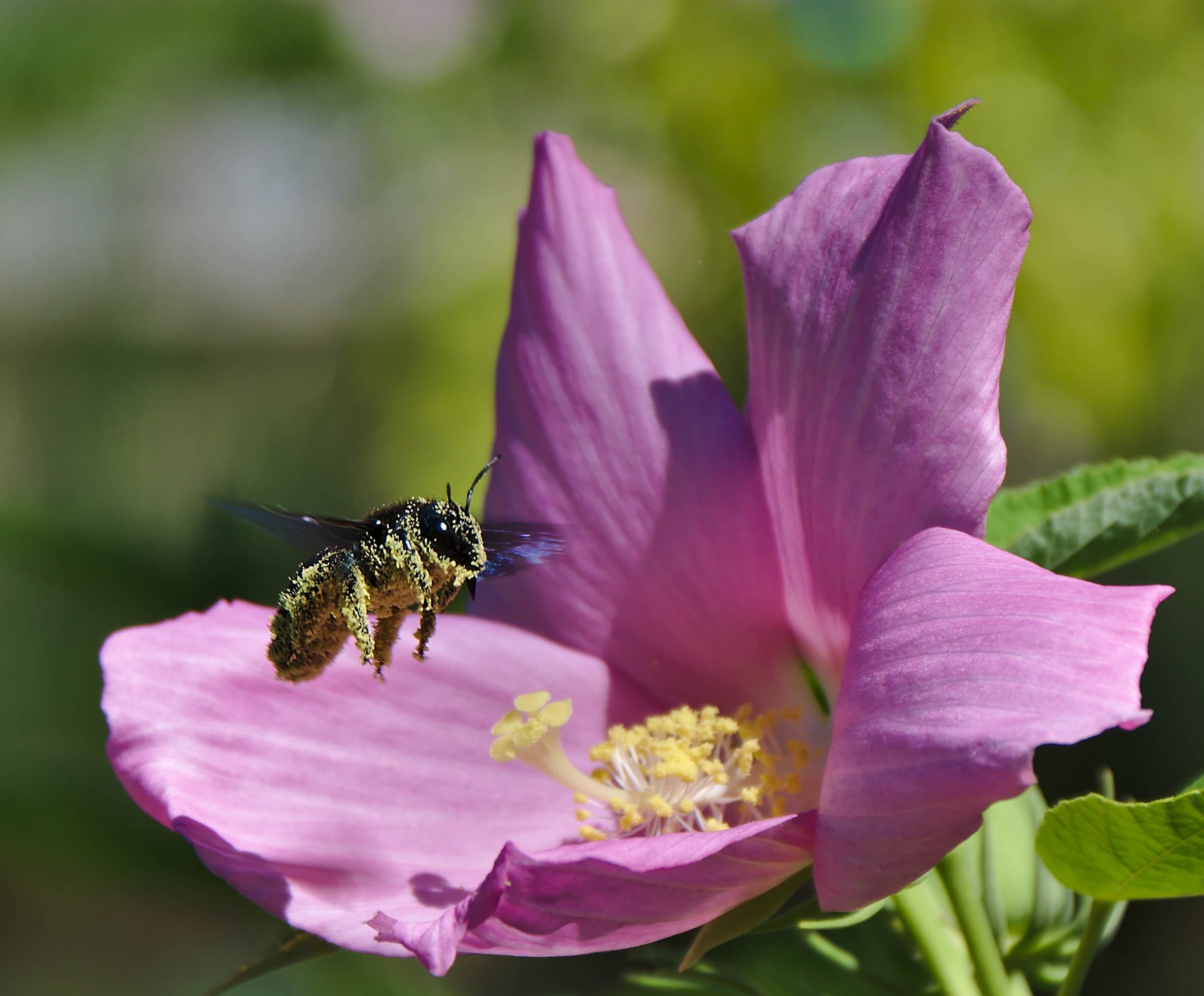 Violet carpenter bee Xylocopa violacea on a Hibiscus mutabilis flower in the botanical garden Jardins des Martels.